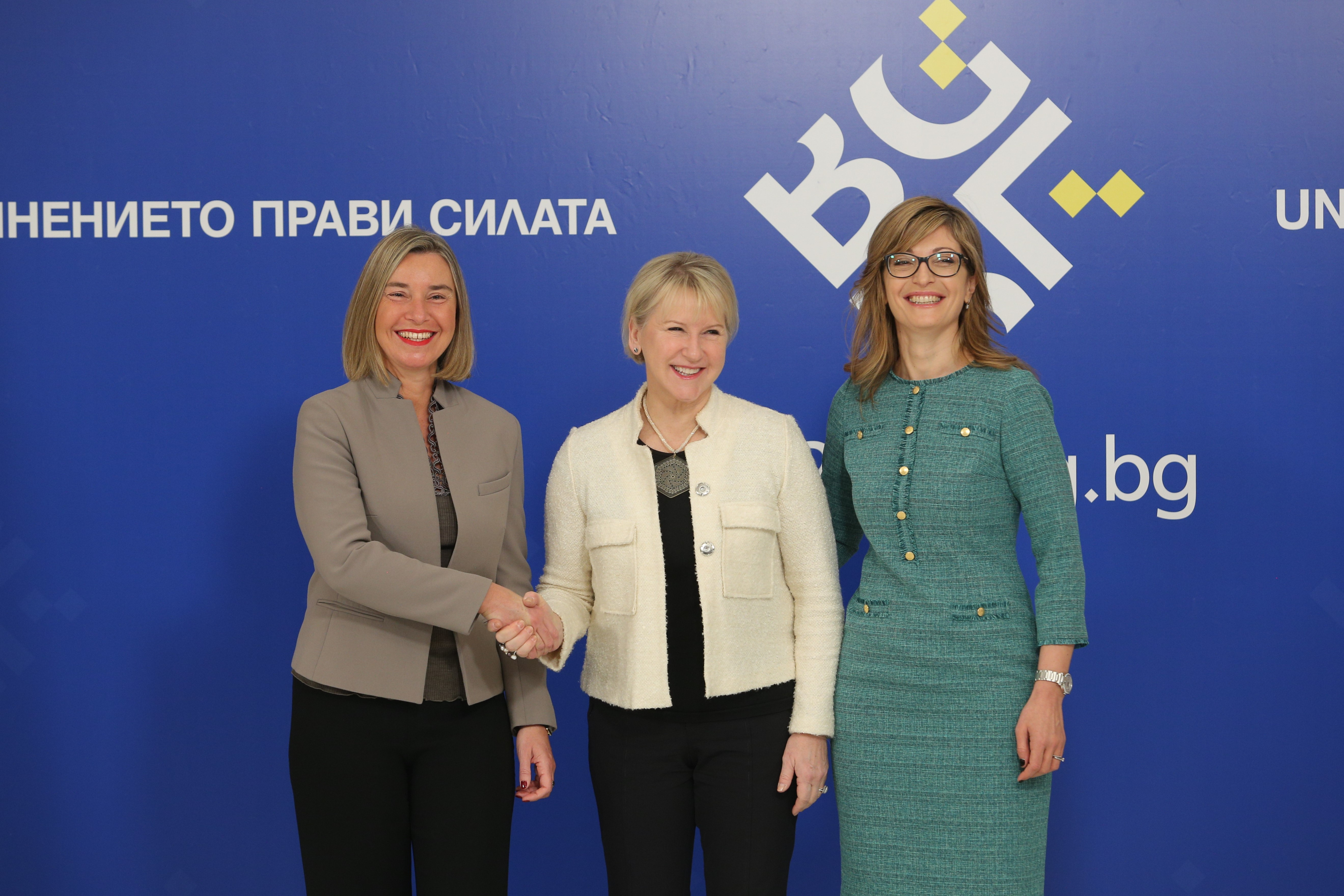 Federica Mogherini, High Representative of the Union for Foreign Affairs and Security Policy / Vice-President of the Commission (left); Margot Wallström, Minister for Foreign Affairs of Sweden(center); Ekaterina Zaharieva, Deputy Prime Minister for Judicial Reform and Minister of Foreign Affairs of the Republic of Bulgaria (right); Photo: Krum Stoev (EU2018BG)